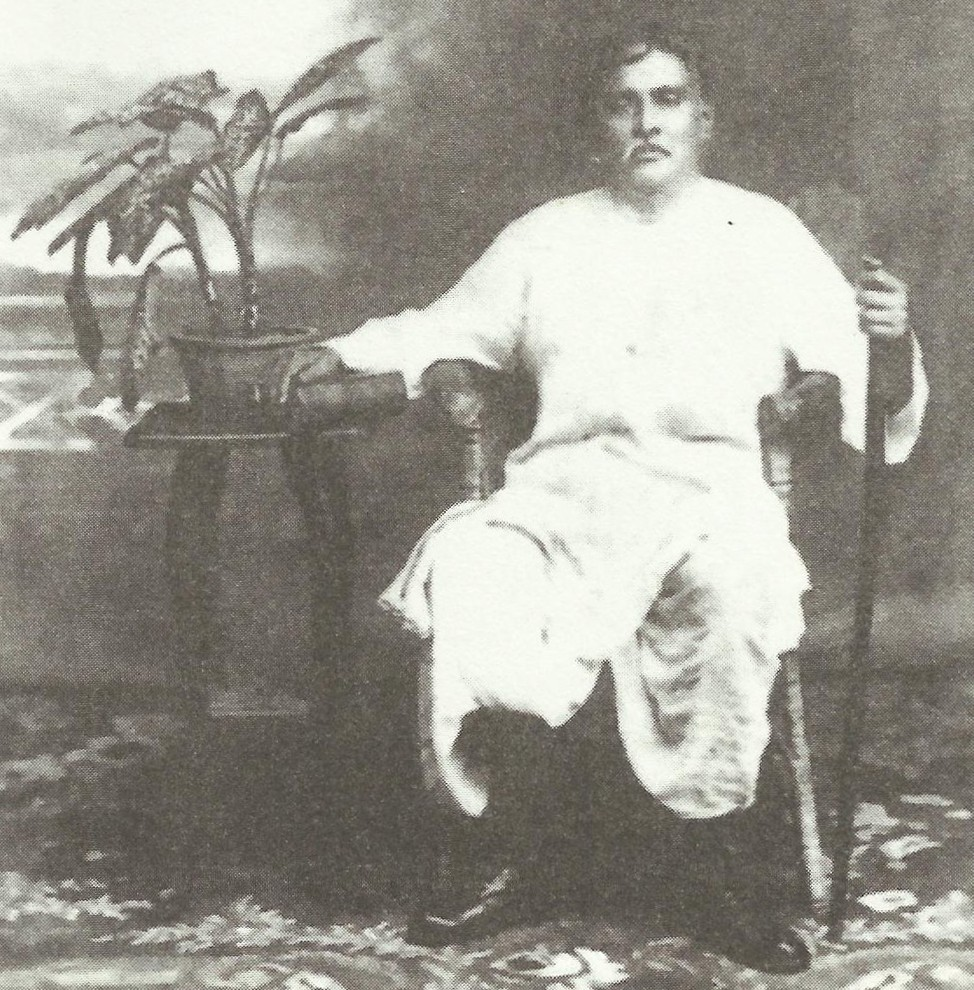 Photograph of Priyanath Bose (1865 - 1920), taken in Singapore, before his death.